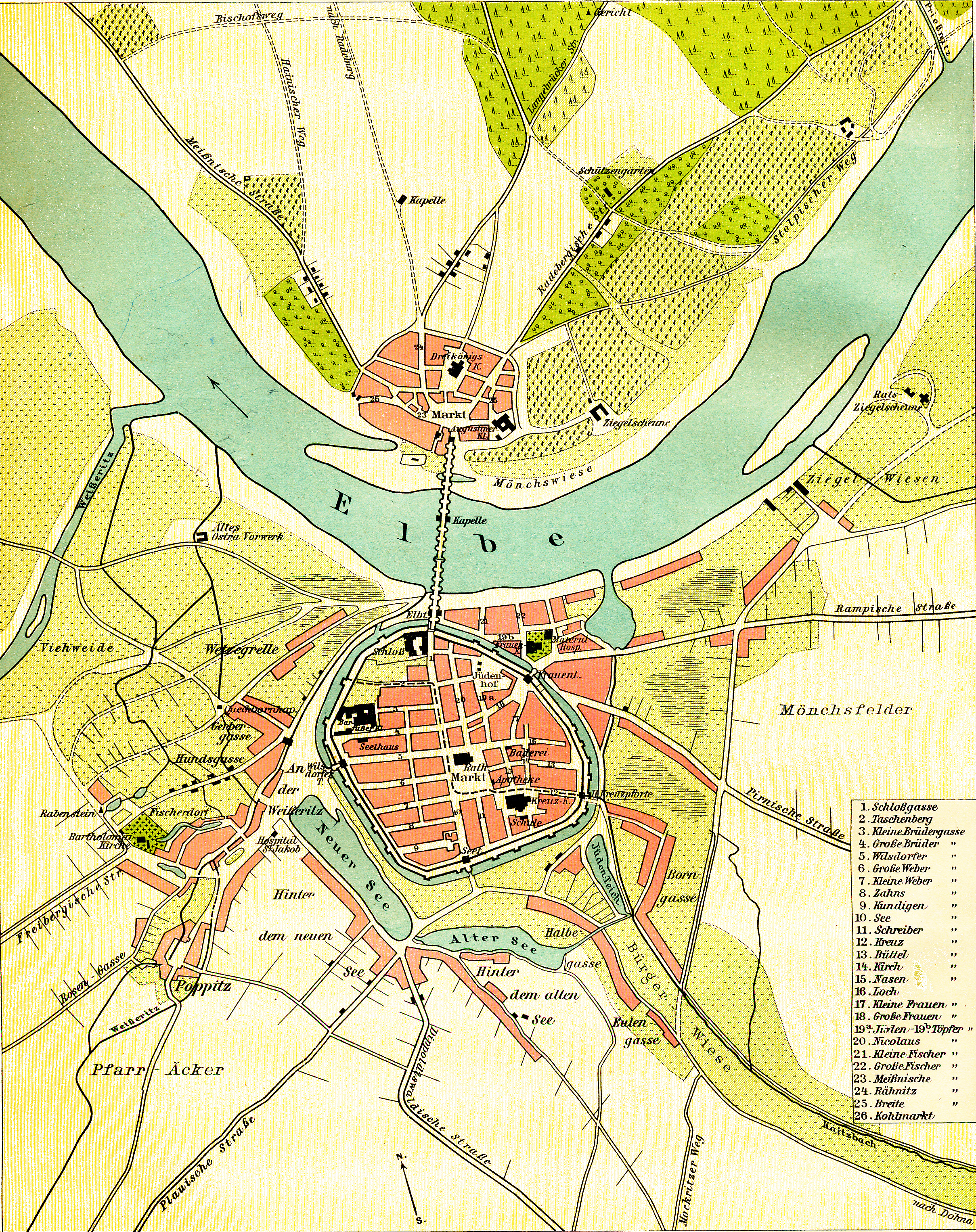 Dresden around 1500